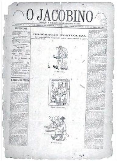 First edition of O Jacobino newspaper in 1894